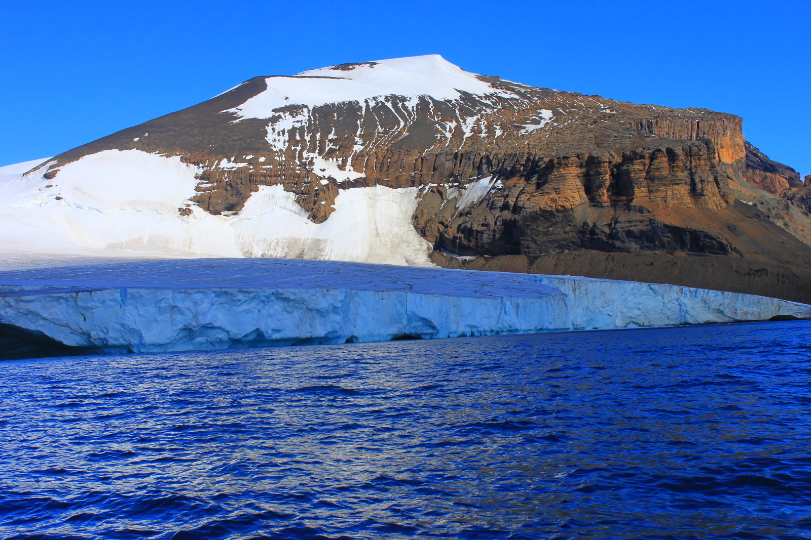 Picture of Brown Bluff with a tidewater glacier adjacent to it.